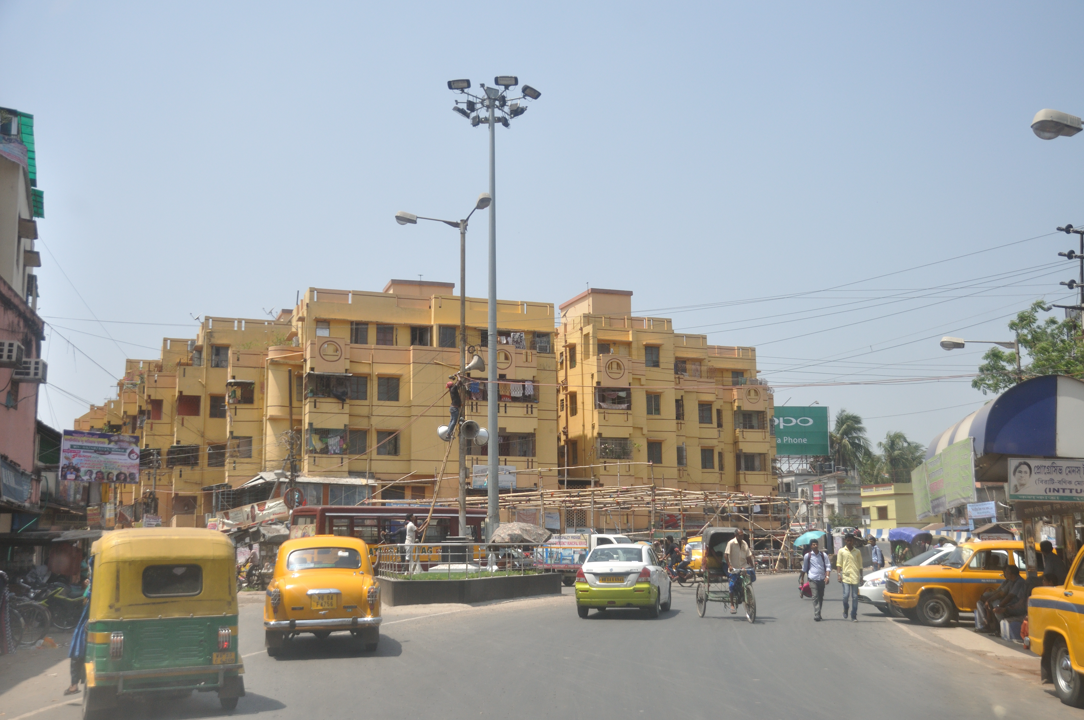 This photograph was taken in Kolkata, West Bengal.